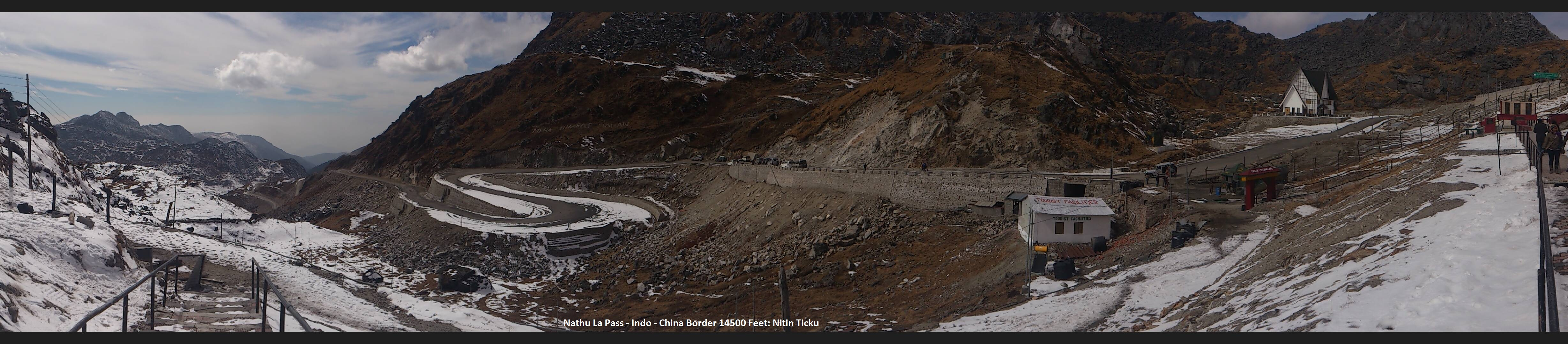 Nathu La Pass Indo China Border